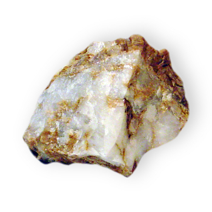 These mineral images are free to use how you wish.